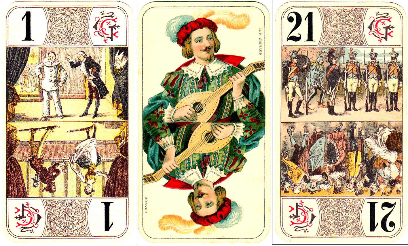 Atouts 1, 21 and Excuse from Grimaud 1910 Jeu de Tarot